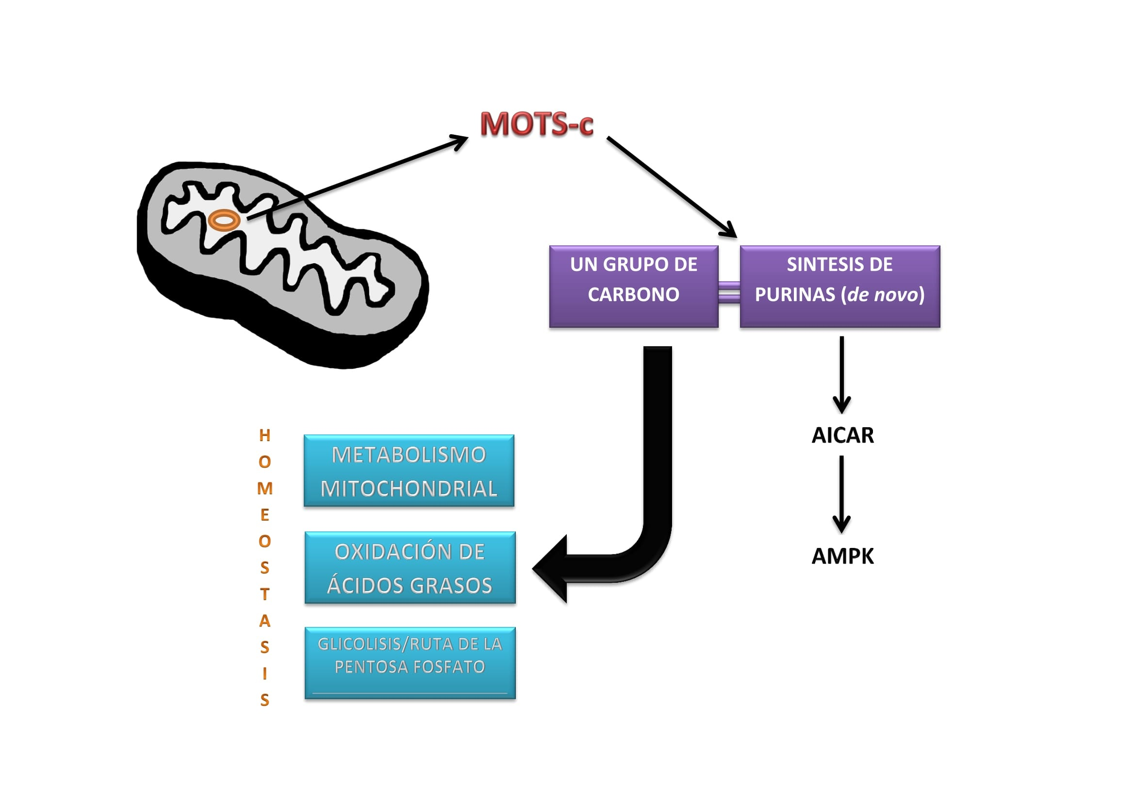 MOTS-C functions